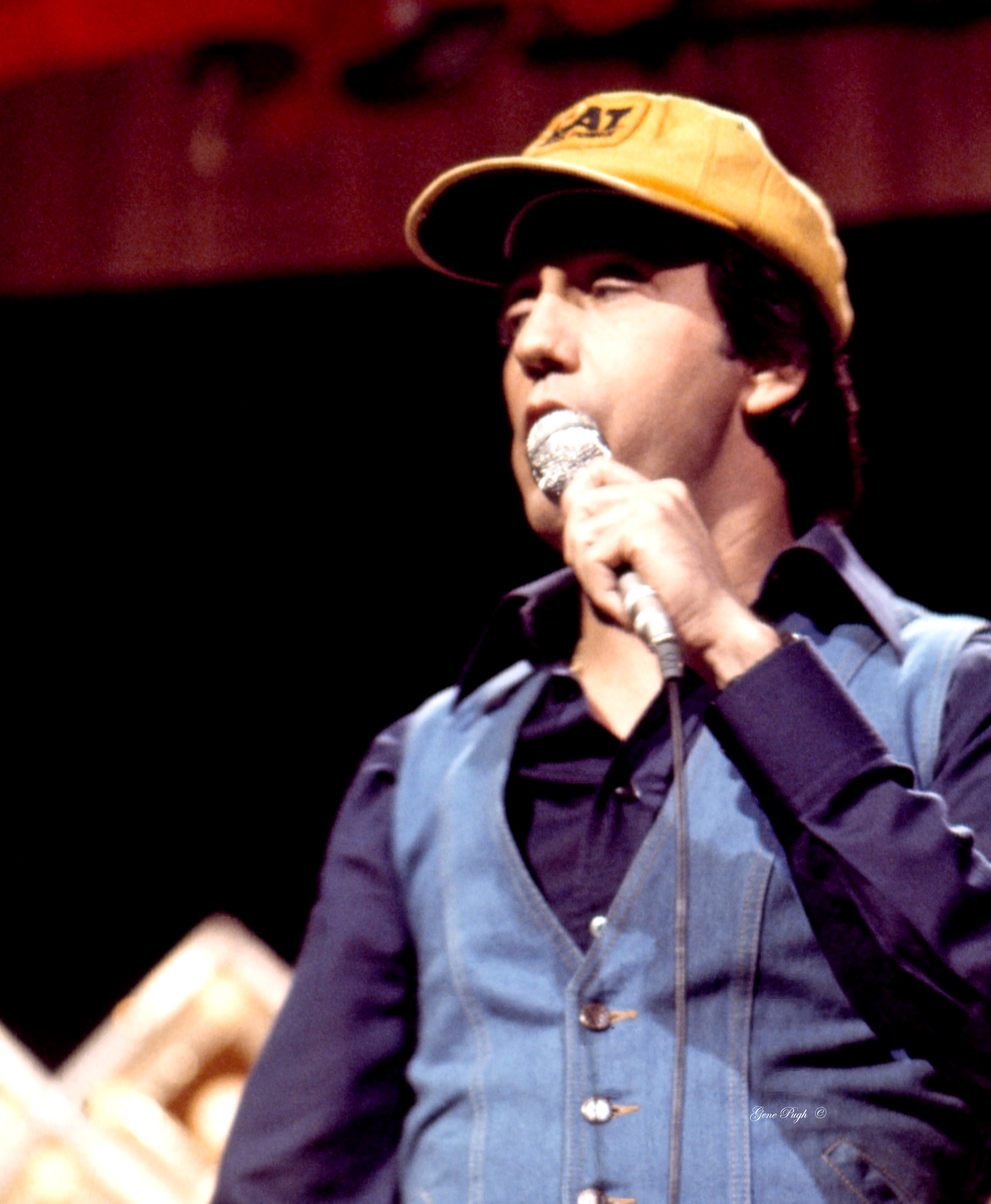 vocalist Ray Stevens performing in concert: photo taken during the taping of The Johnny Cash Show in Nashville, Tenn. in the 1970s; Ray Stevens is wearing a "Caterpillar hat"